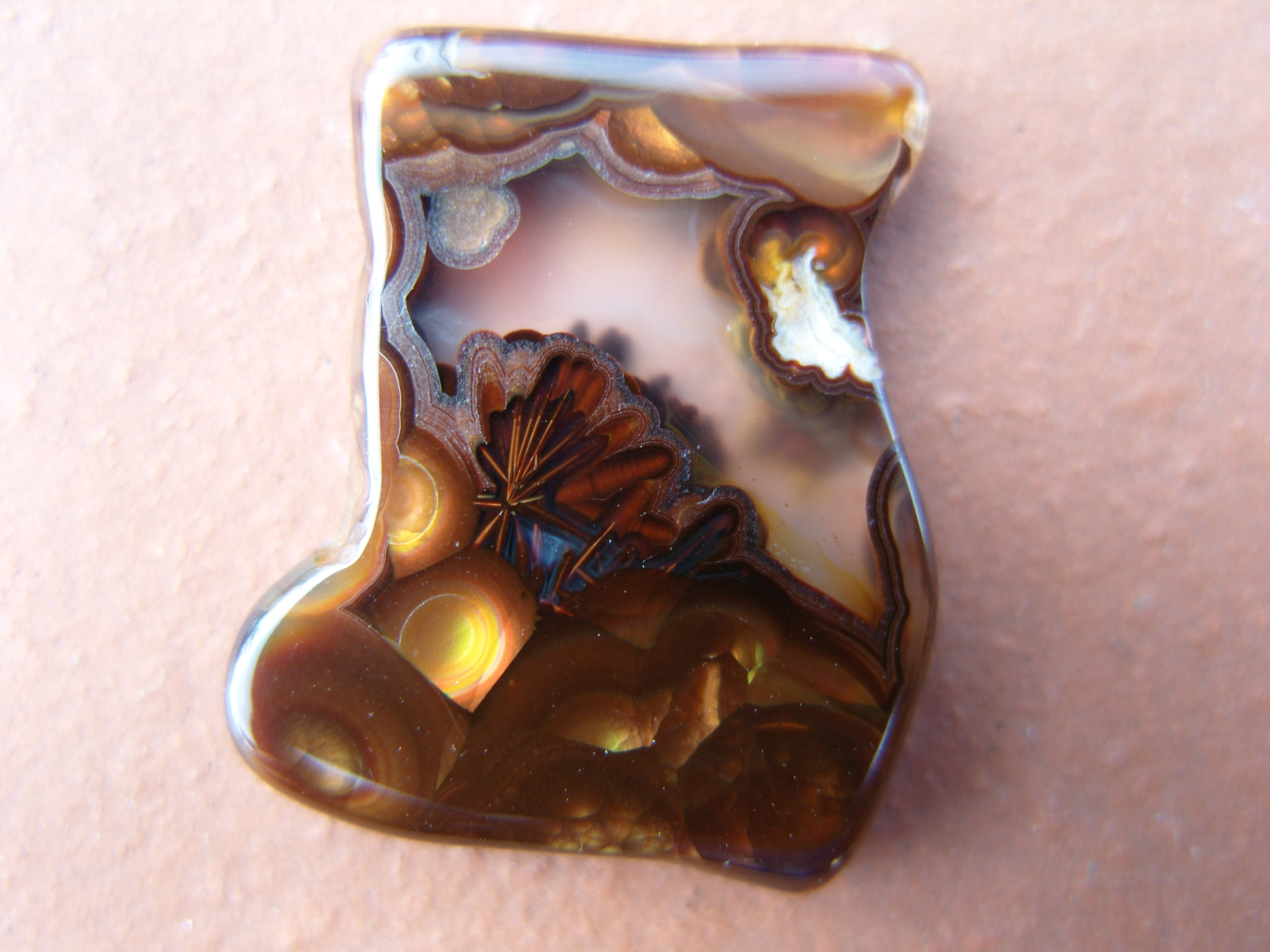 Sagenitic Fire Agate